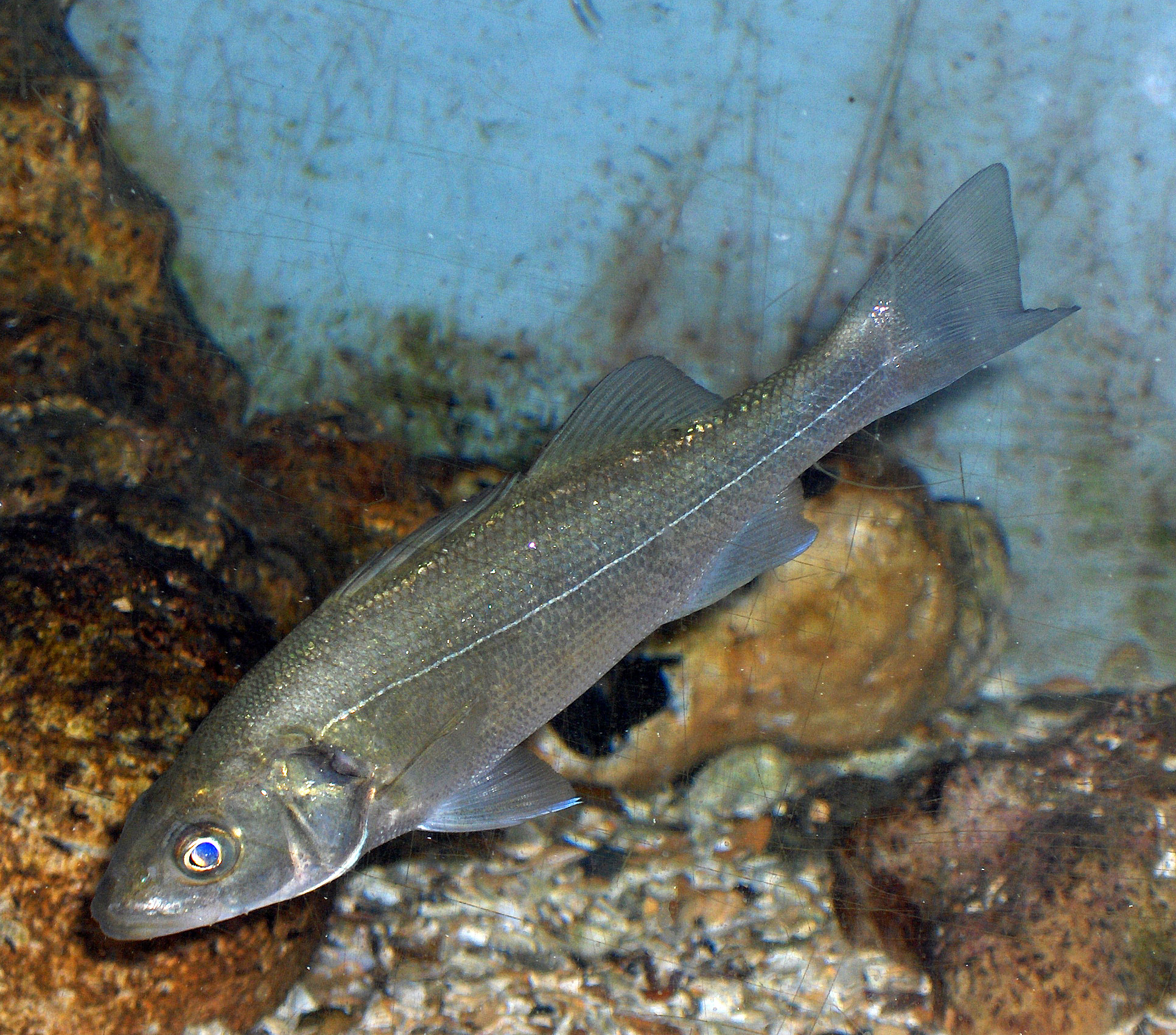 Dicentrarchus labrax, the European seabass, belonging to the family Moronidae